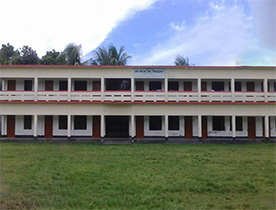 Ganabangla High School